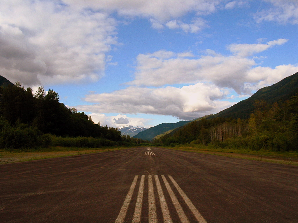 Looking North on the Stewart Runway